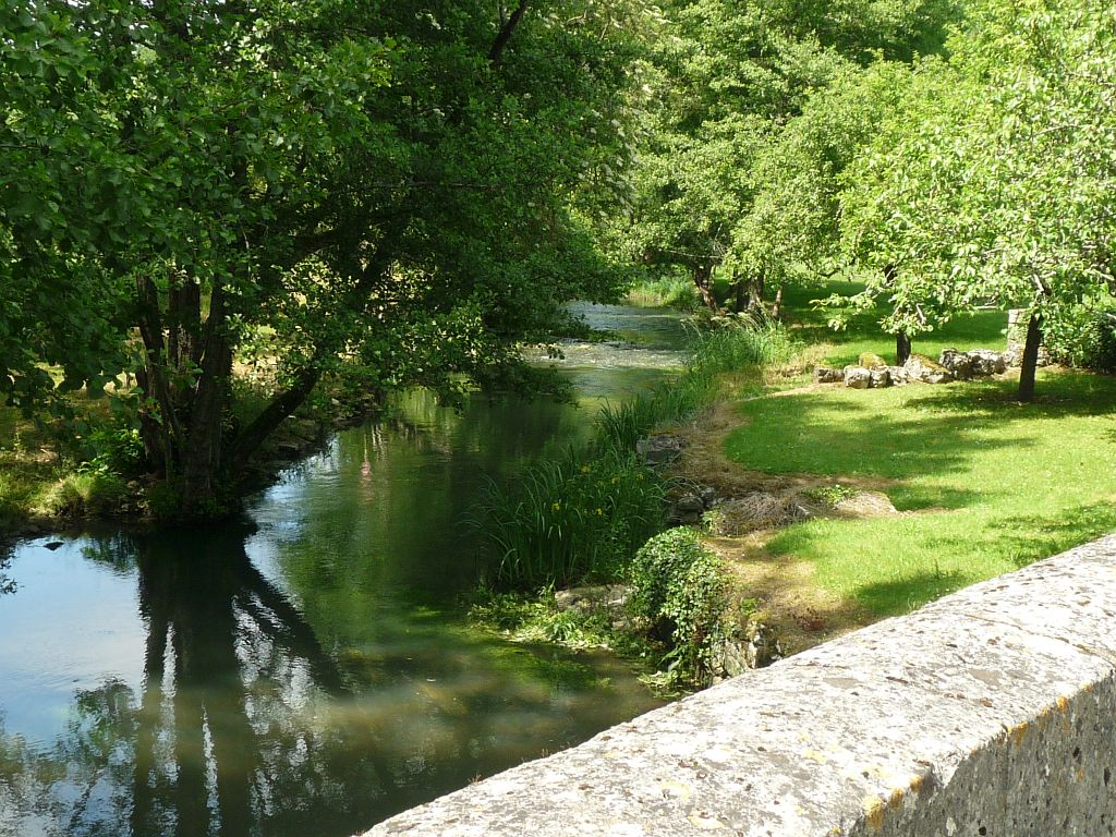 the river Son at Cellefrouin, Charente, France